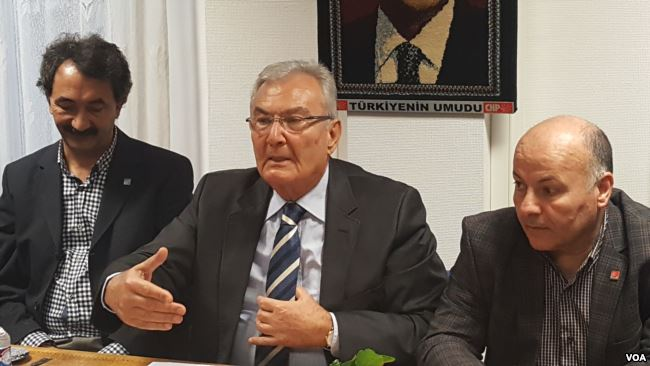 Former CHP leader and current MP Deniz Baykal campaigning in France for a 'No' vote for the 2017 constitutional referendum